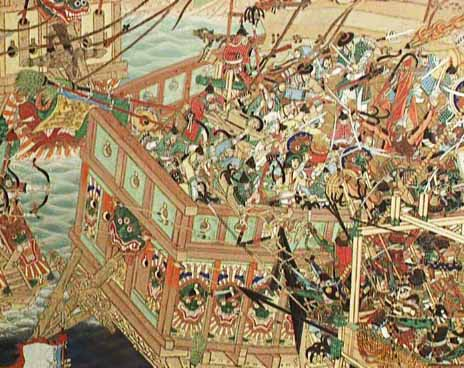 Picture of part of a Naval Battle Scroll from the Imjin War